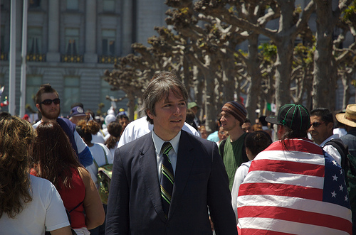 Former SF Supervisor Matt Gonzalez at A Day Without Immigrants march - San Francisco